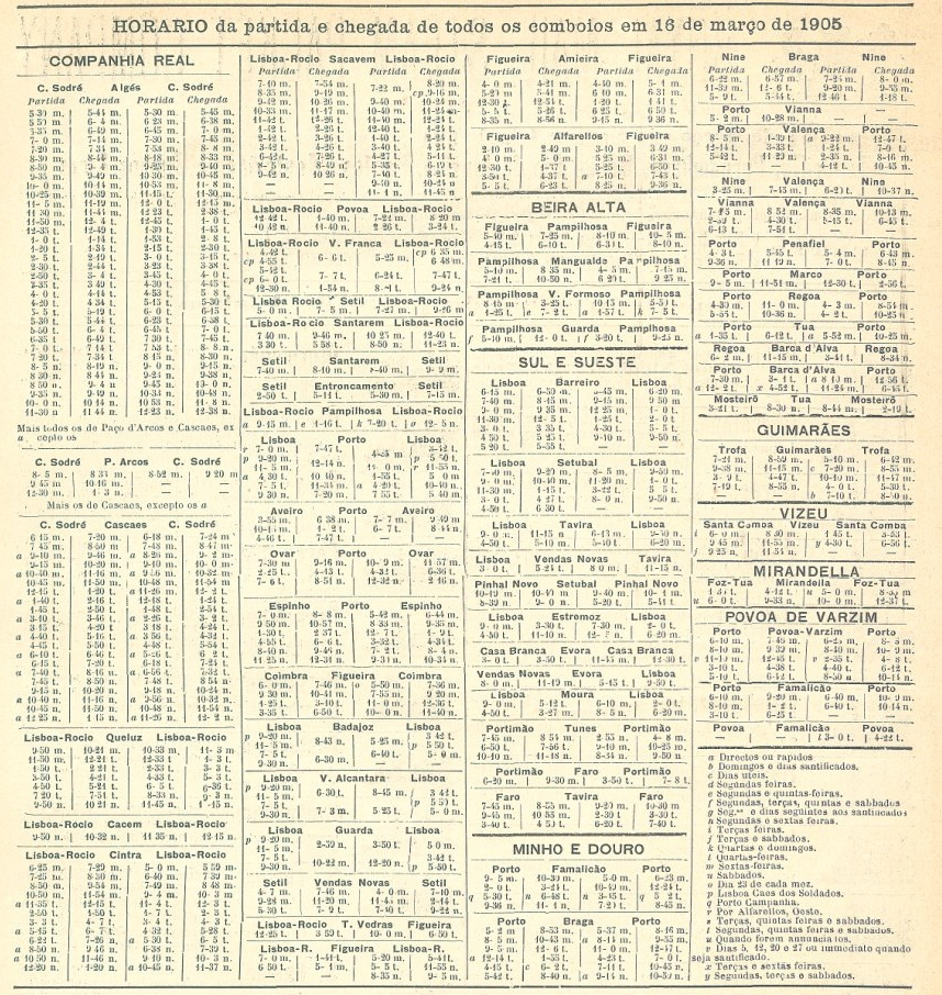 Timetable of all the passenger trains in Portugal, in 16th March 1905 This image was published on the Gazeta dos Caminhos de Ferro magazine No. 412, of the 16th March 1905, and scanned by the Hemeroteca Municipal de Lisboa.